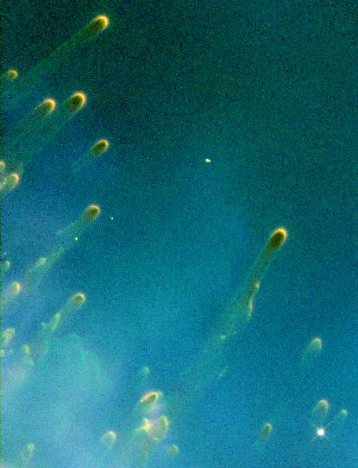 These gigantic, tadpole-shaped objects are probably the result of a dying star's last gasps. Dubbed "cometary knots" because their glowing heads and gossamer tails resemble comets, the gaseous objects probably were formed during a star's final stages of life. Hubble astronomer C. Robert O'Dell and graduate student Kerry P. Handron of Rice University in Houston, Texas discovered thousands of these knots with the Hubble Space Telescope while exploring the Helix nebula, the closest planetary nebula to Earth at 450 light-years away in the constellation Aquarius. Although ground-based telescopes have revealed such objects, astronomers have never seen so many of them. The most visible knots all lie along the inner edge of the doomed star's ring, trillions of miles away from the star's nucleus. Although these gaseous knots appear small, they're actually huge. Each gaseous head is at least twice the size of our solar system; each tail stretches for 100 billion miles, about 1,000 times the distance between the Earth and the Sun. Astronomers theorize that the doomed star spews hot, lower-density gas from its surface, which collides with cooler, higher-density gas that had been ejected 10,000 years before. The crash fragments the smooth cloud surrounding the star into smaller, denser finger-like droplets, like dripping paint. This image was taken in August, 1994 with Hubble's Wide Field Planetary Camera 2. The red light depicts nitrogen emission ([NII] 6584A); green, hydrogen (H-alpha, 6563A); and blue, oxygen (5007A).